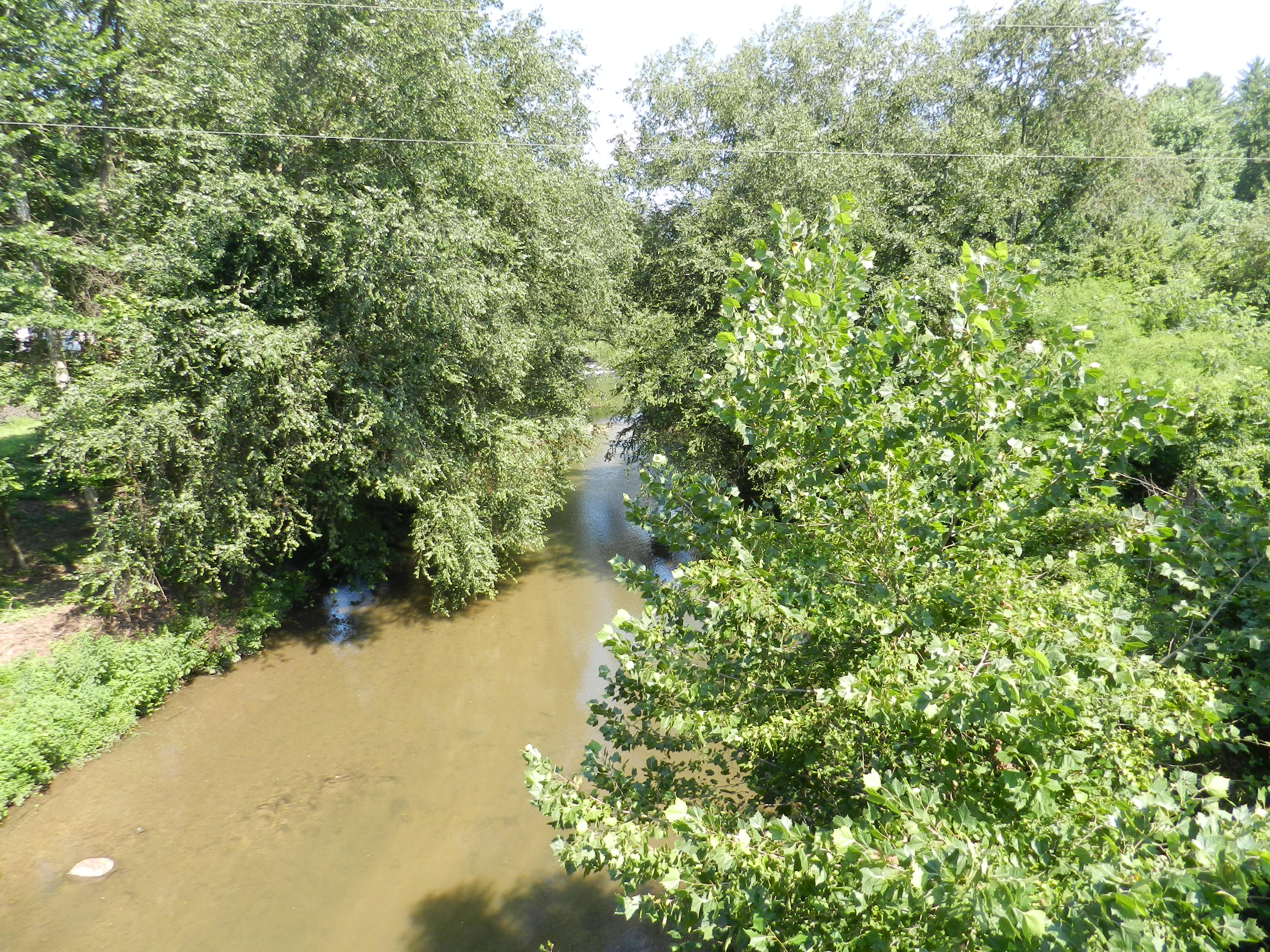 Yadkin Riv er at the crossing of NC 268 in Ferguson, Wilkes County, North Carolina